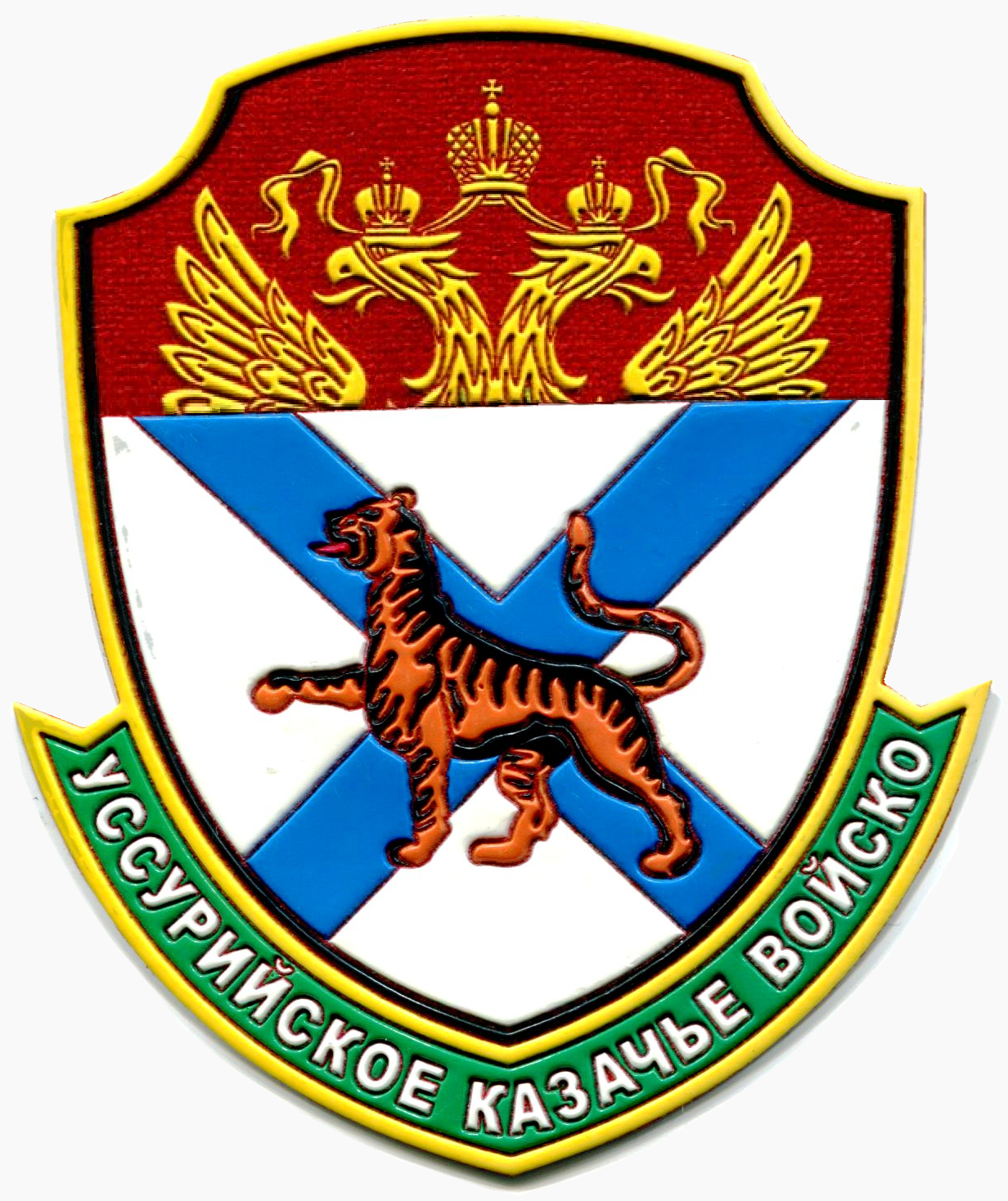 Уссурийское казачье войско (шеврон)